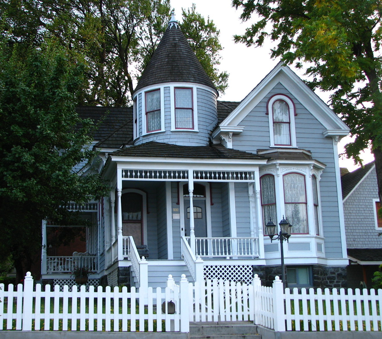 The historic Hugh Glenn House (built 1882), located at 100 West 9th Street in The Dalles, Oregon, United States, is listed on the US National Register of Historic Places (NRHP).